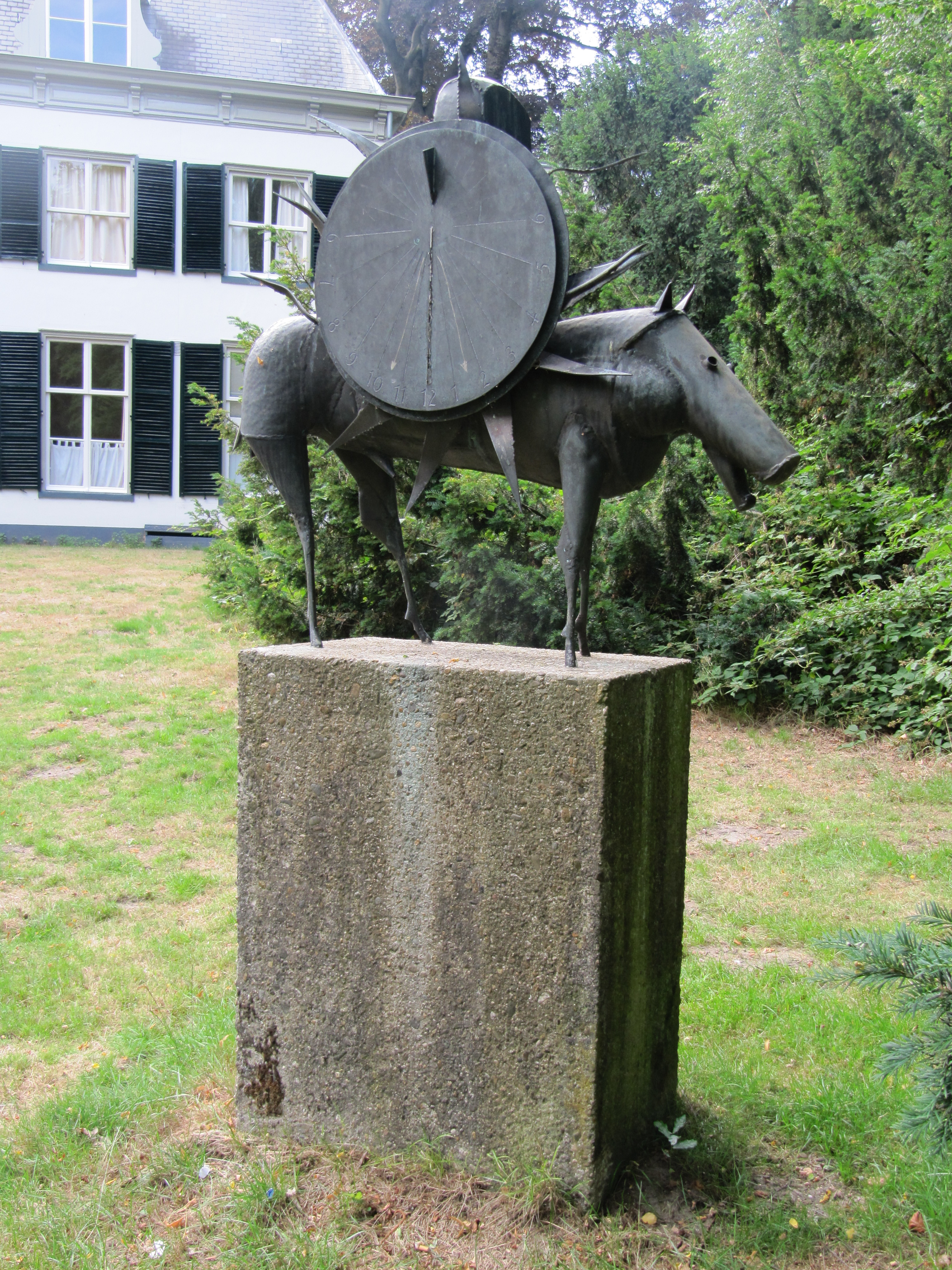 Sculpture "Zonnewijzer / Ruiter te paard" by Aart van den IJssel in the garden of Landhuis Randenbroek in Amersfoort, The Netherlands